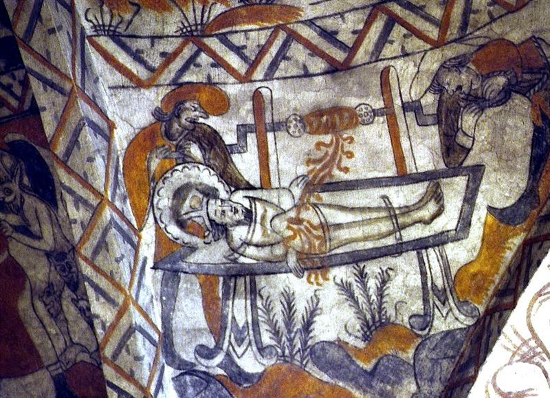 Frescoes by The Isefjord Master from apr. 1460-1480 in Tuse Kirke (church)